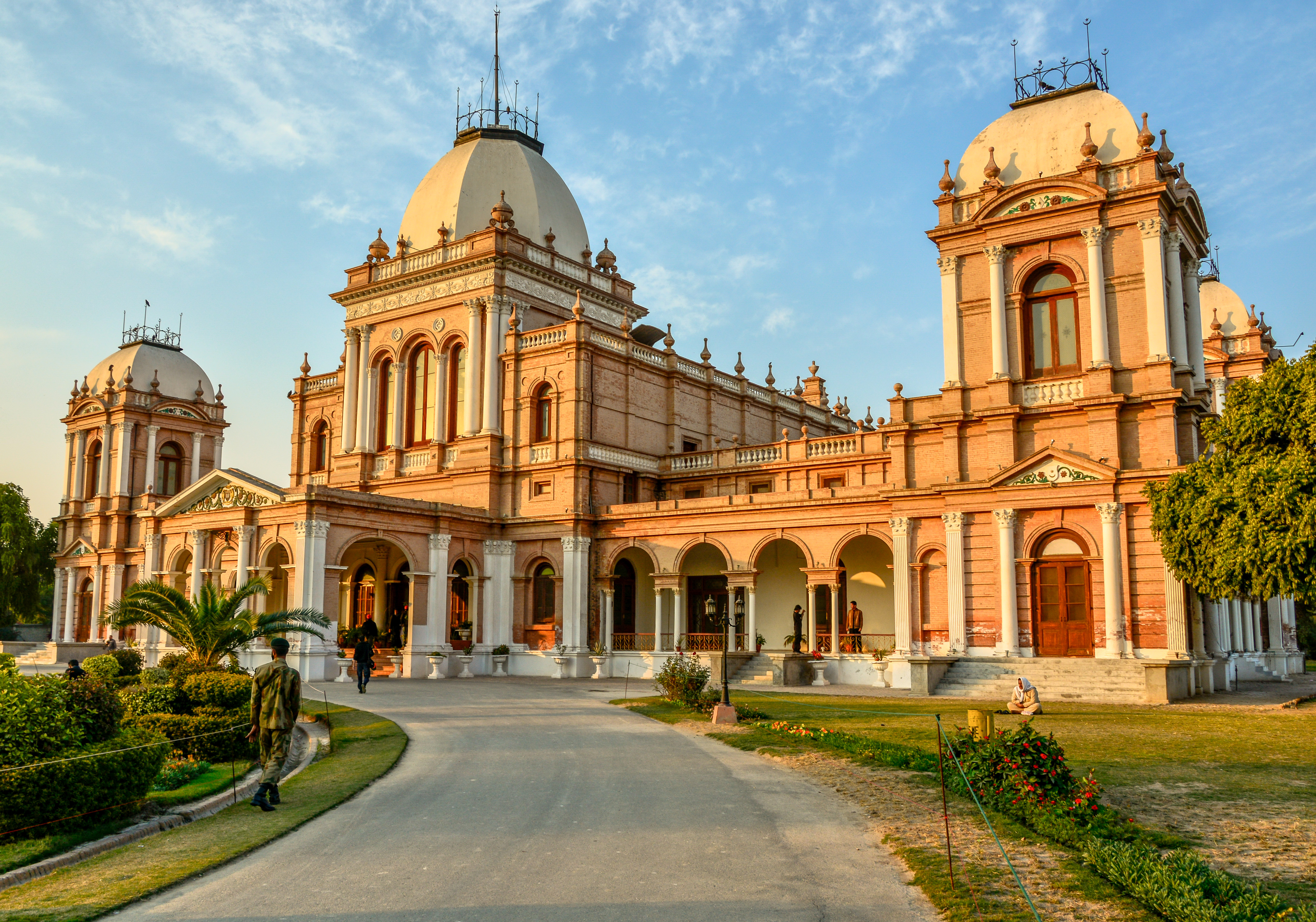 Noor Mahal This is a photo of a monument in Pakistan identified as the PB-U-4